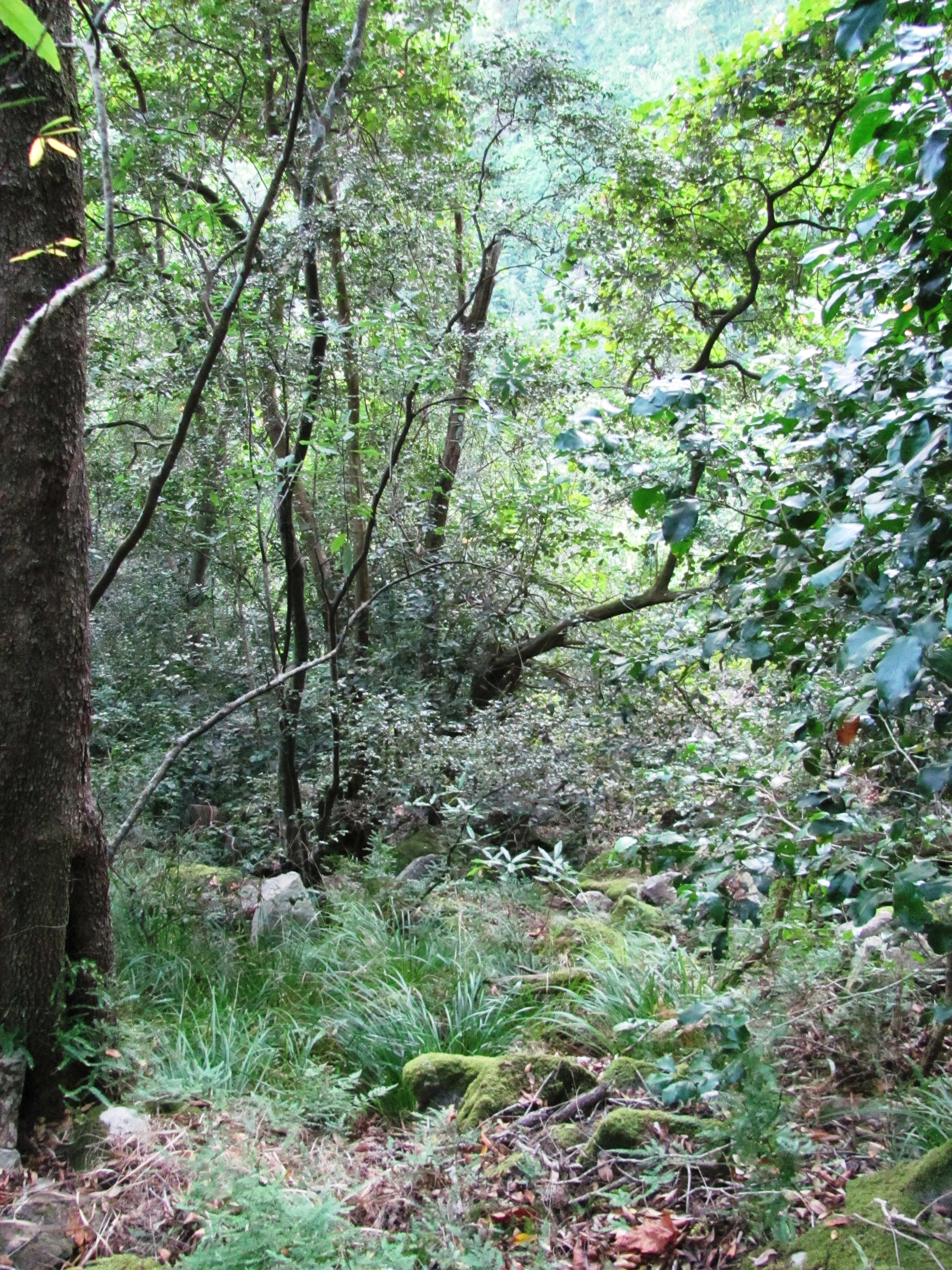 Southern Afrotemperate forest growing in Cecilia Park, Cape Town.